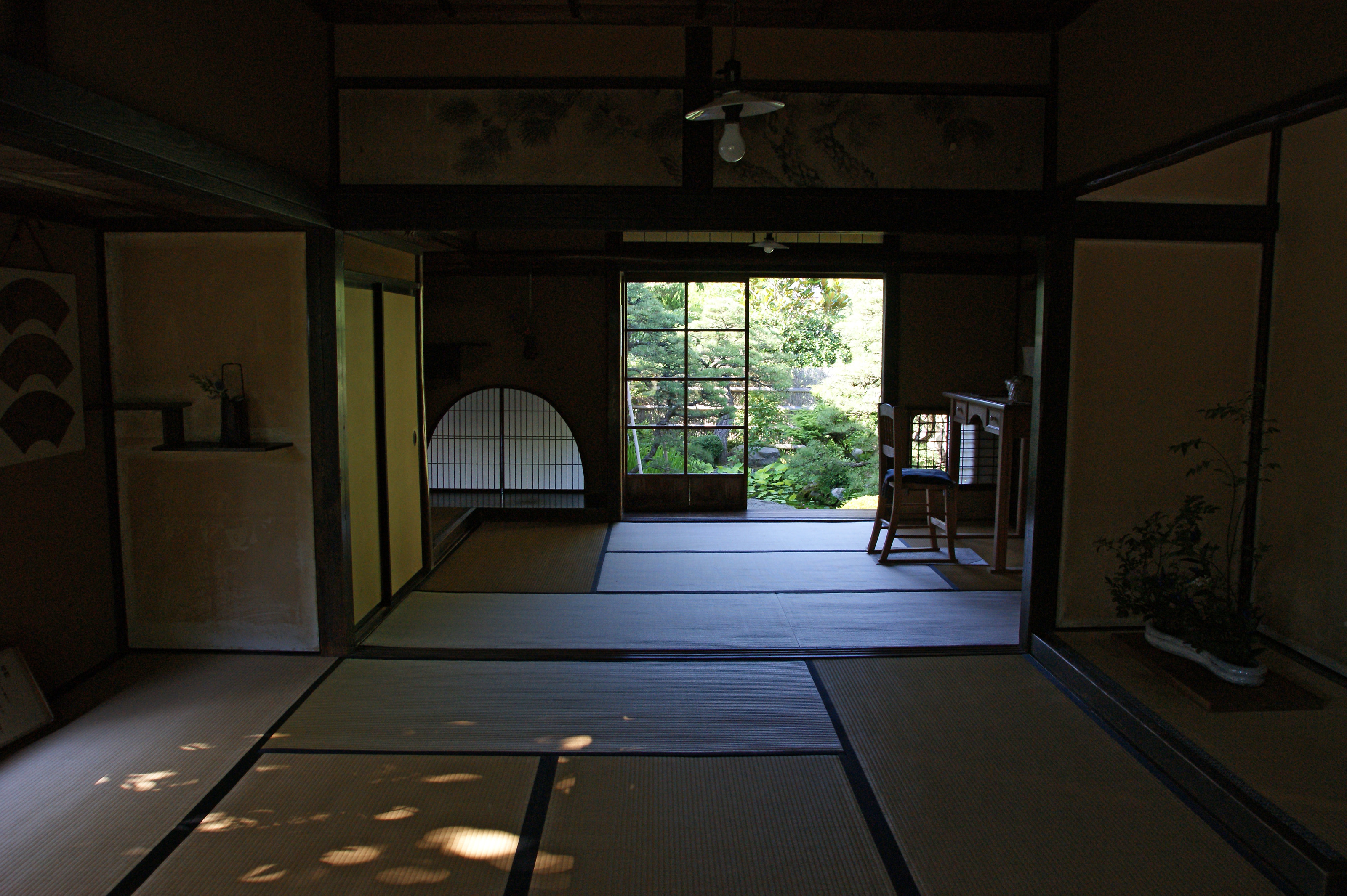 Lafcadio Hearn's Old Residence in Matsue, Shimane prefecture, Japan